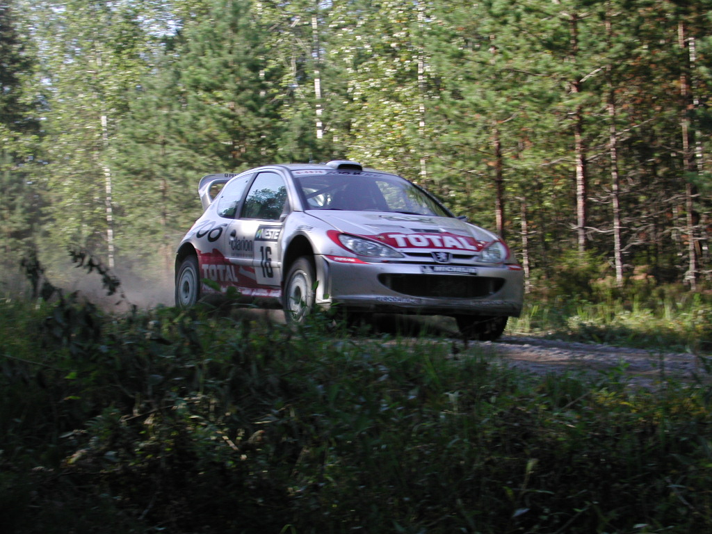 Harri Rovanperä at the 2001 Rally Finland.